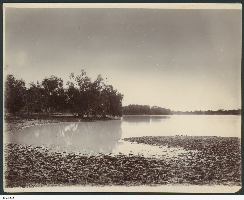 Newcastle Waters ca. 1900